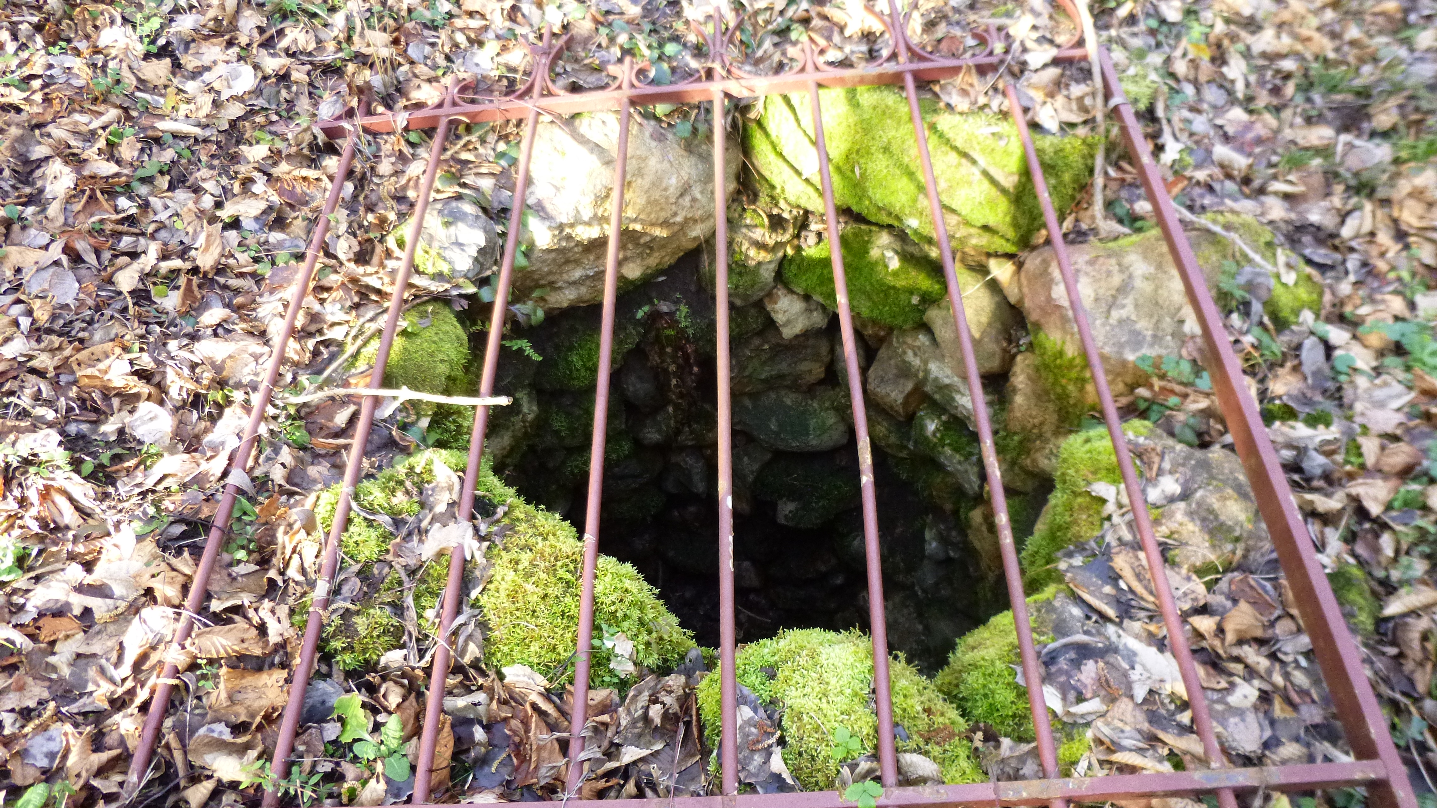 The "ferrier", Tannerre-en-Puisaye, Yonne, Burgundy, France. A roman water well in the ferrier.